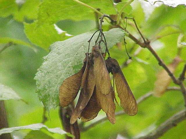 Species: Acer tataricum Family: Aceraceae Image No. 5